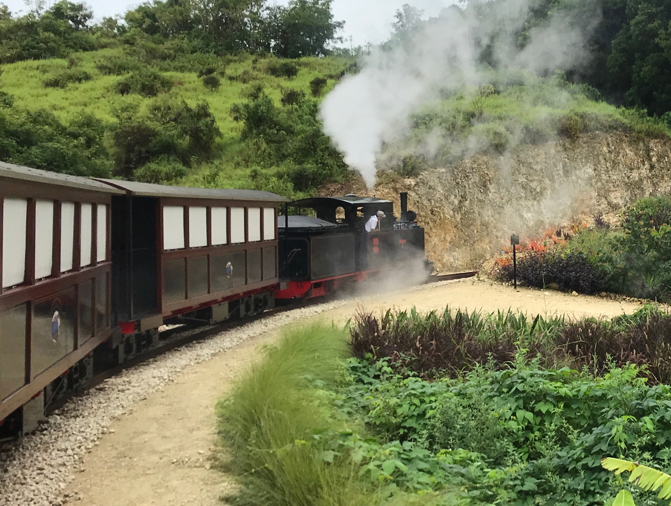 A passenger train on the ascent to Cherry Tree Hill, at the St Nicholas Abbey Heritage Railway, Barbados.